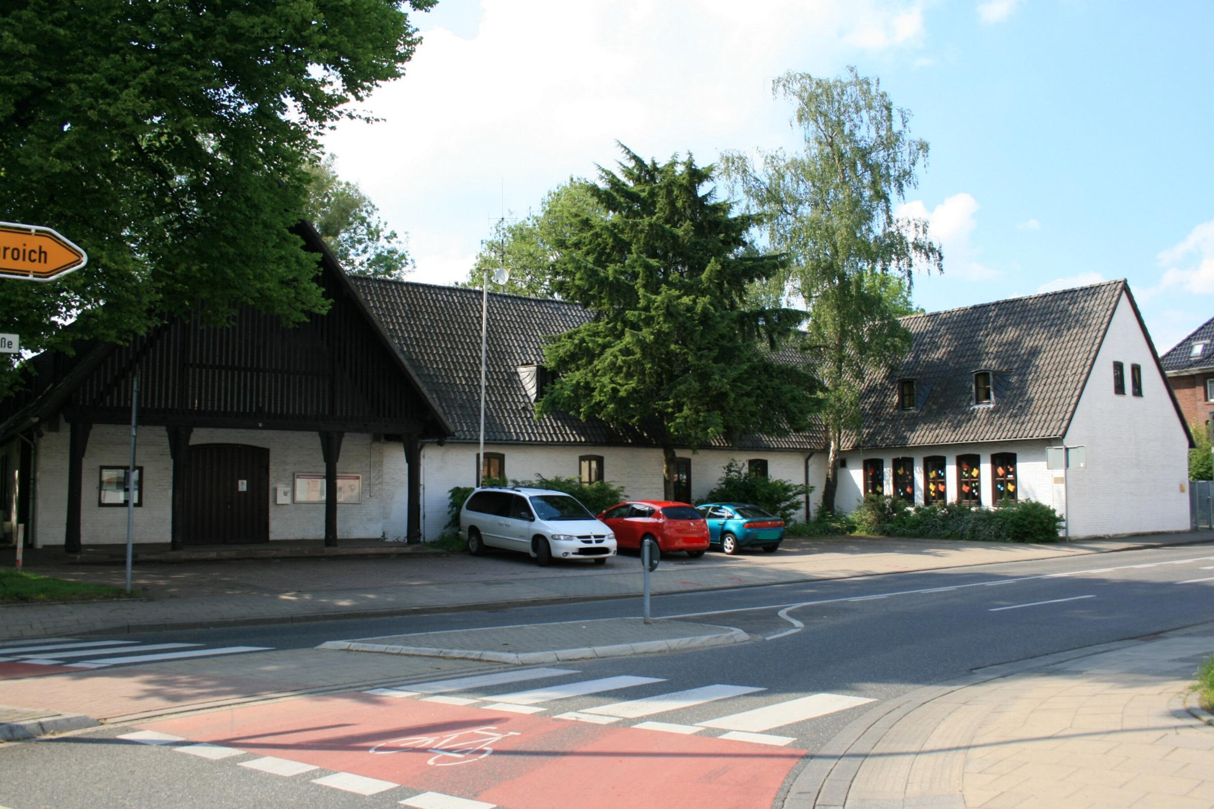 Cultural heritage monument No. K 078 in Mönchengladbach